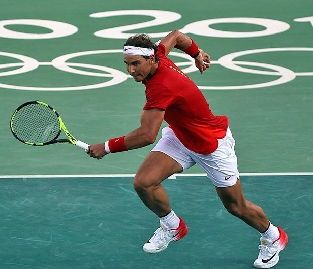 Tennis at the 2016 Summer Olympics – Men's singles. Rafael Nadal - Andreas Seppi